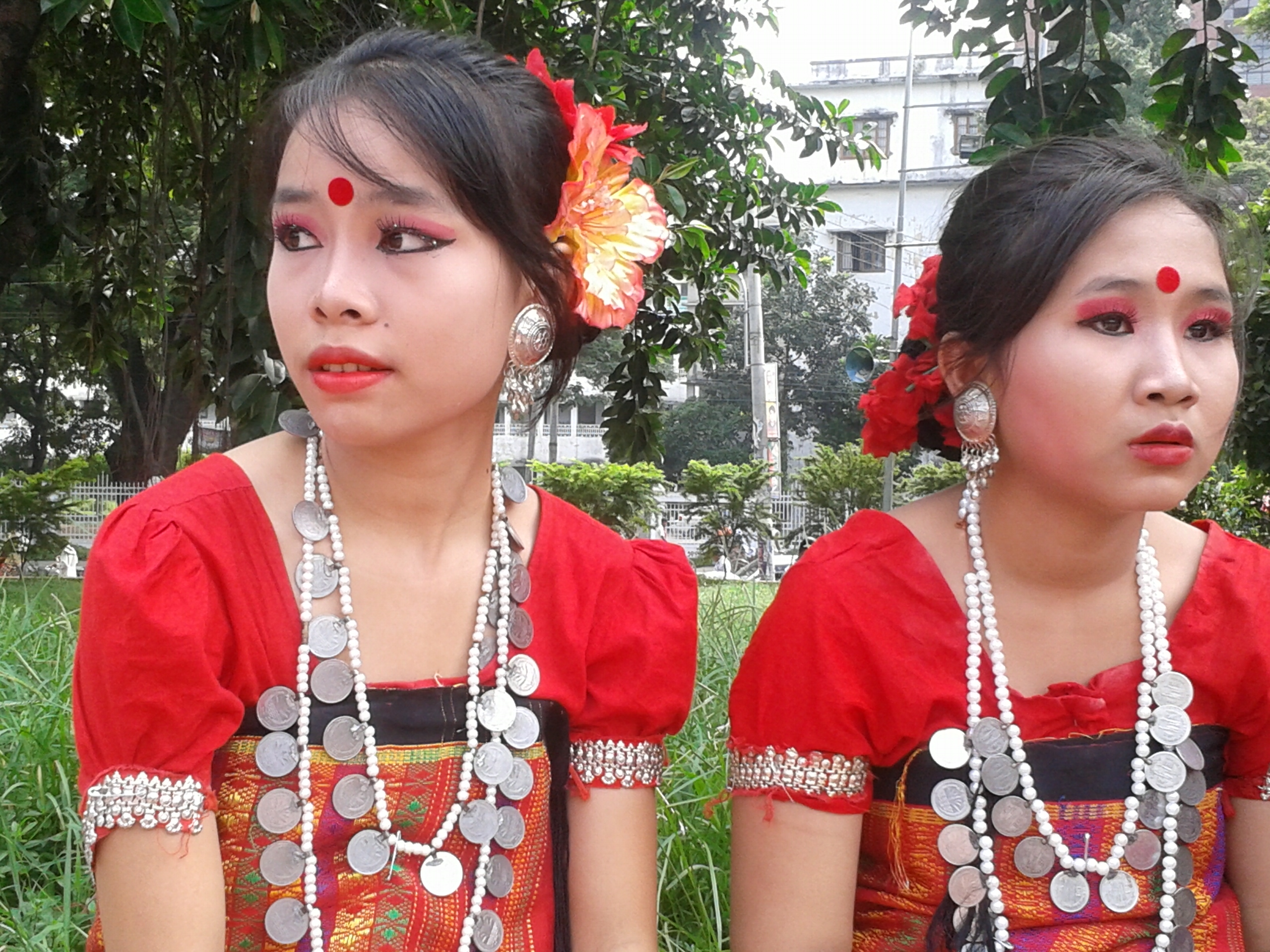 Chakma Dancers, Indigenous People's Day, 2014, Dhaka, Bangladesh